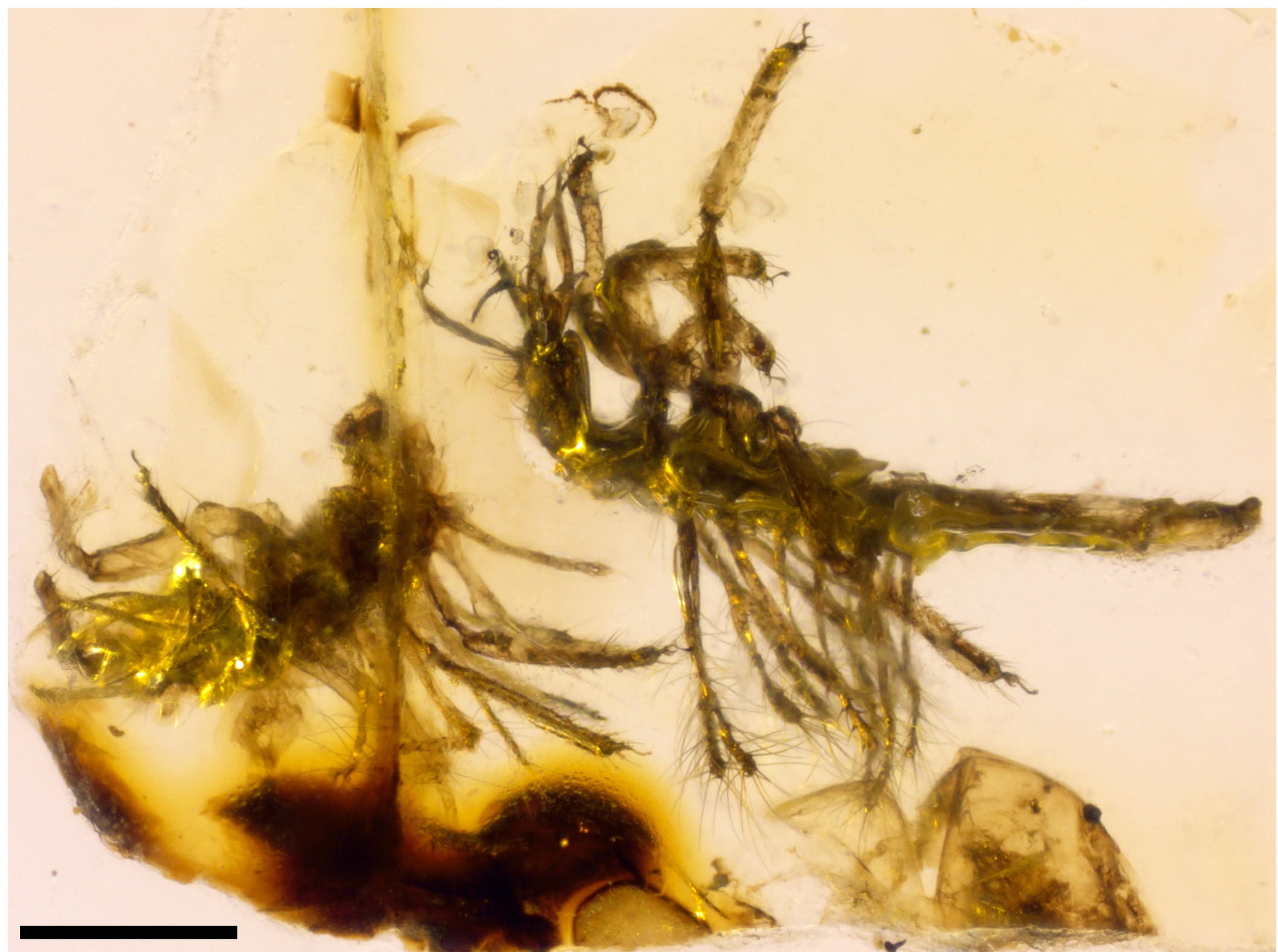 FIG. 2. Tragichrysa ovoruptora gen. et sp. nov. neonate larvae and associated egg remains, photograph and drawing. Preparation NHMLUAC S-1, bearing two specimens (d– e, NHMLU-AC S-1d and S-1e) and the remains of five eggs. This preparation (together with NHMLU-AC S-7 (Fig. 1) and NHMLU-AC S-2 (Fig. 4D)) originally belonged to the same amber piece.